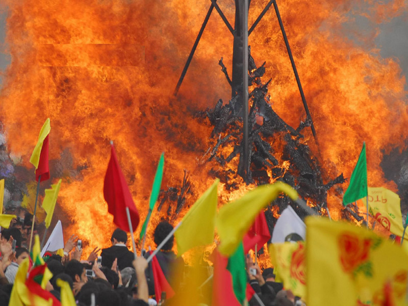 Newroz in Kurdistan